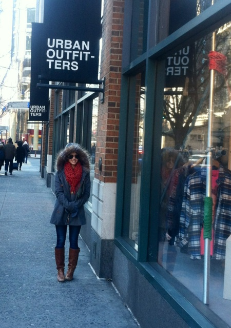 Urban Outfitters Upper West Side location in NYC